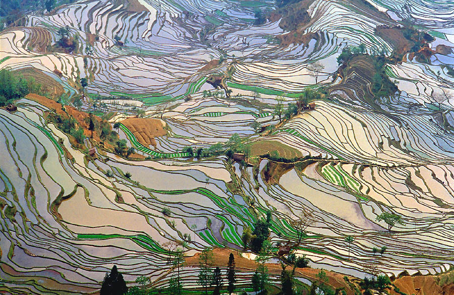 Terrace rice fields in Yunnan Province, China.